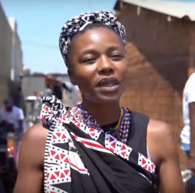 Screenshot from a preview video for MTV Shuga Down South in Feb 2019. See tile for detail